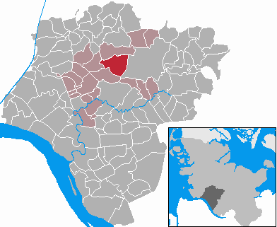 This map shows the area of the municipality Hohenaspe in the Kreis (district) Steinburg, Schleswig-Holstein, Germany.